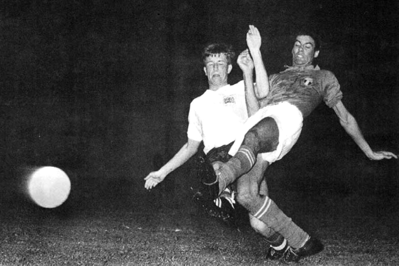 Italy's Sandro Salvadore tackles the Brit Bobby Brown during Italy - Great Britain 2-2 at the association football olympic tournament in Rome, 1960